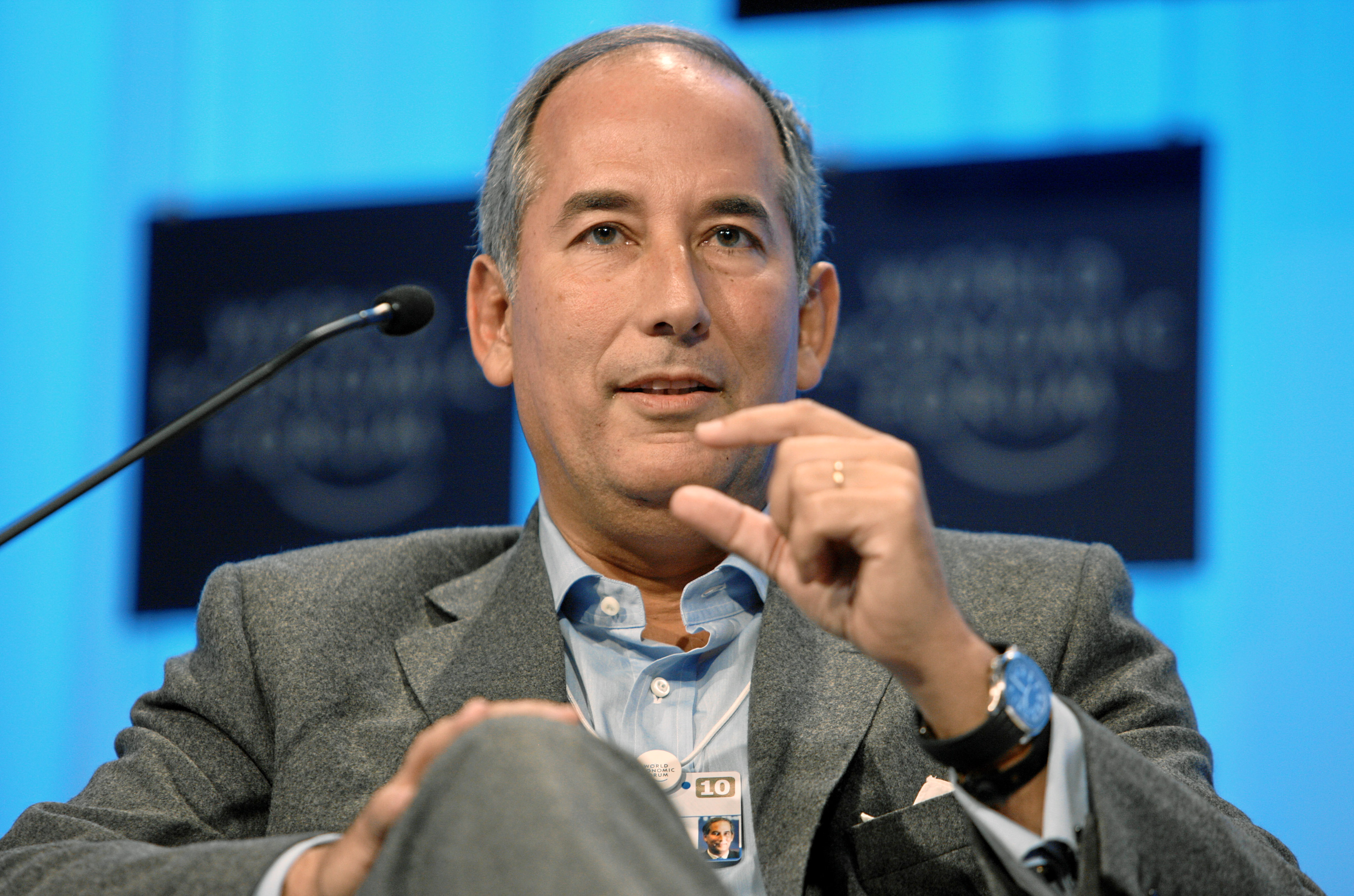 DAVOS/SWITZERLAND, 27JAN10 - Thomas H. Glocer, Chief Executive Officer, Thomson Reuters, USA speaks during the session 'Rethinking Values in the Post-Crisis World' of the Annual Meeting 2010 of the World Economic Forum in Davos, Switzerland, January 27, 2010 at the Congress Centre.. Copyright by World Economic Forum. by Remy Steinegger.